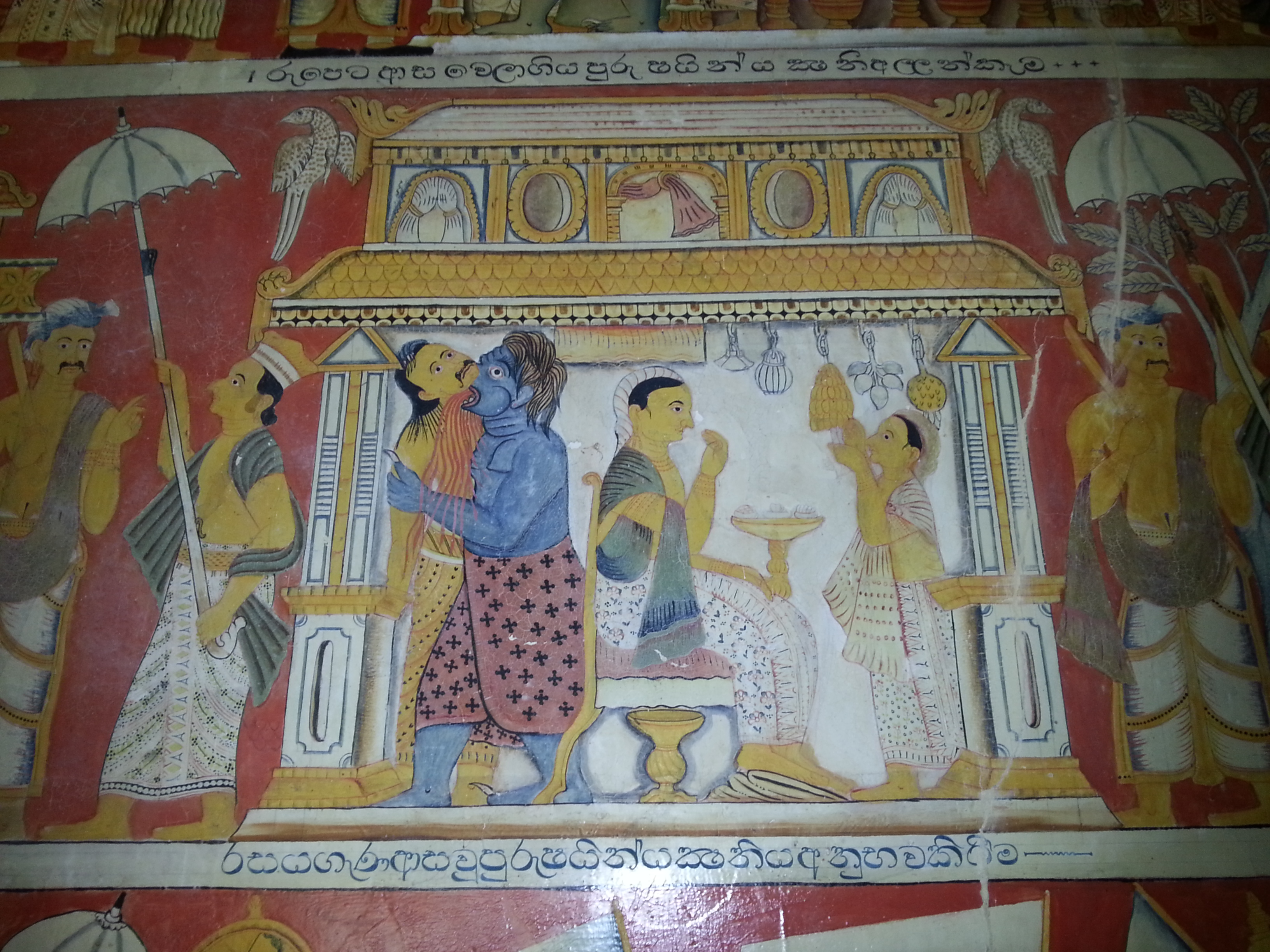 Old Paintings